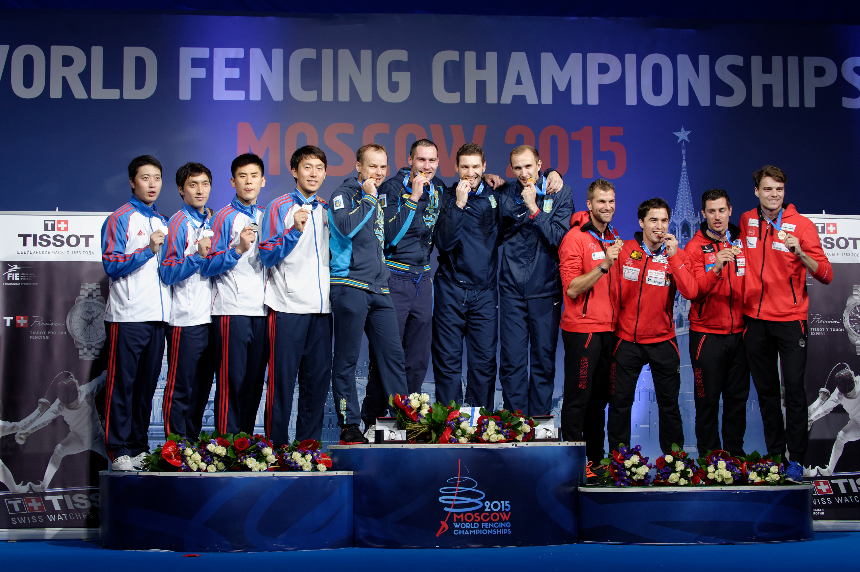 From left to right, South Korea, Ukraine and Switzerland at the medal ceremony of the men's team épée event of the 2015 World Fencing Championships on 18 July 2014 at the Olympic Stadium in Moscow.